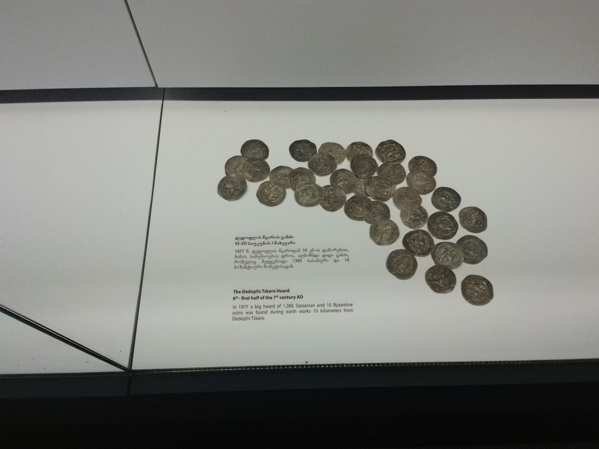 The Dedophlistskaro Hoard